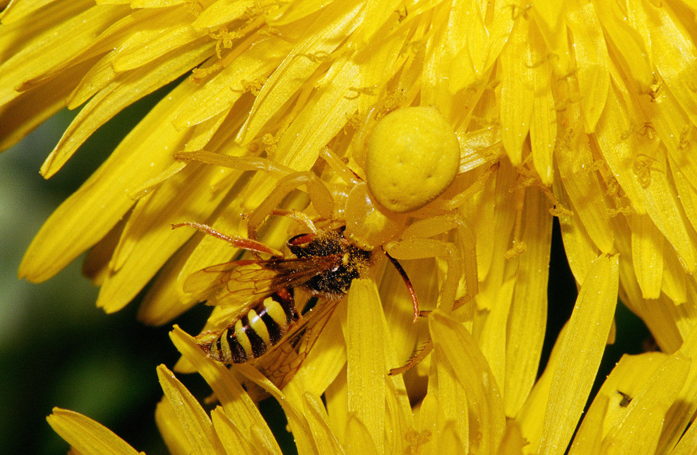 Misumena vatia with wasp